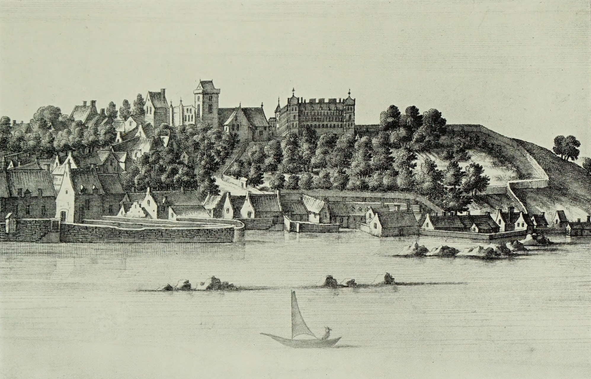 Old picture of Culross on the Forth